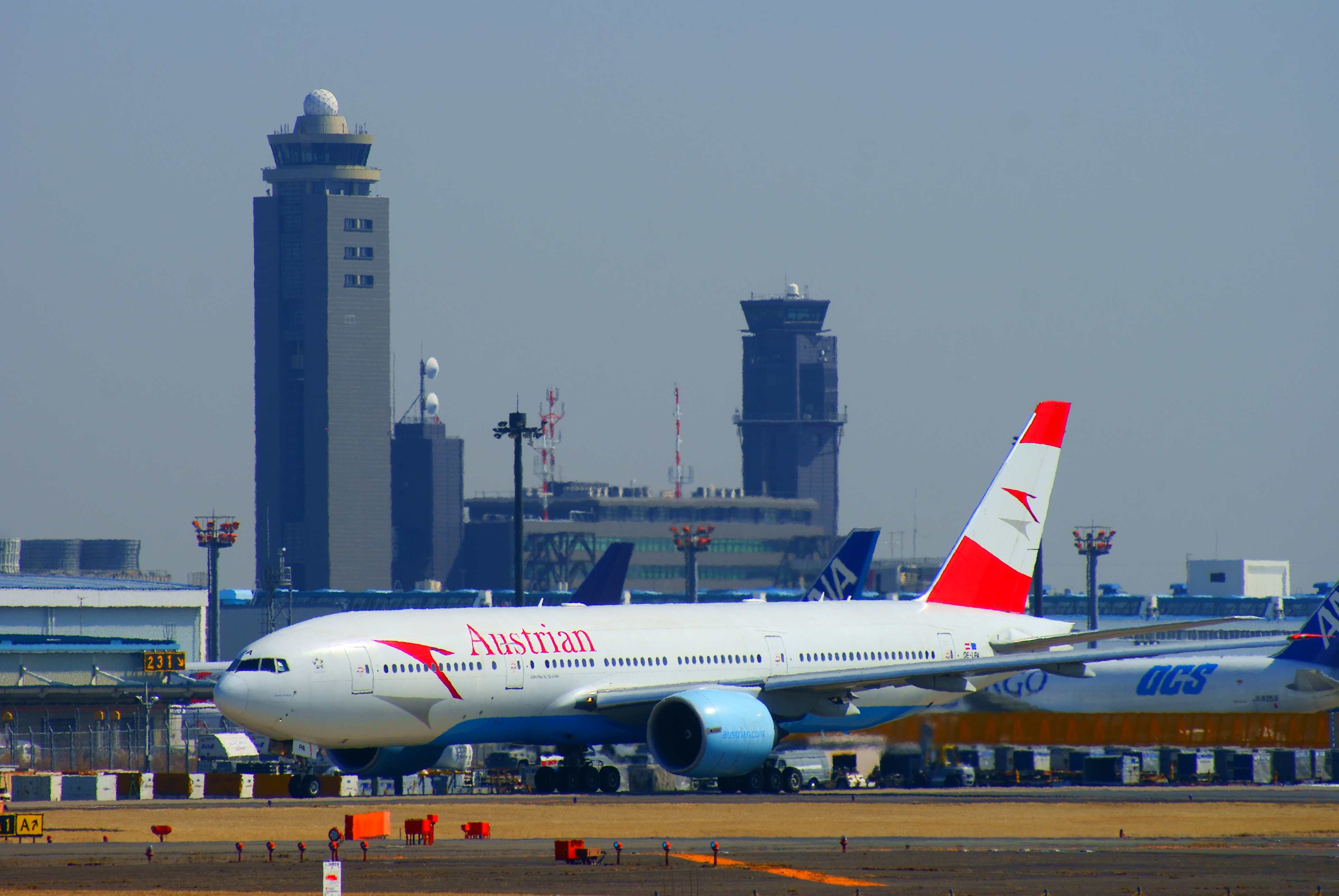 Austrian Airlines Boeing 777-200ER was taxiing the control tower to the back at Narita Airport.